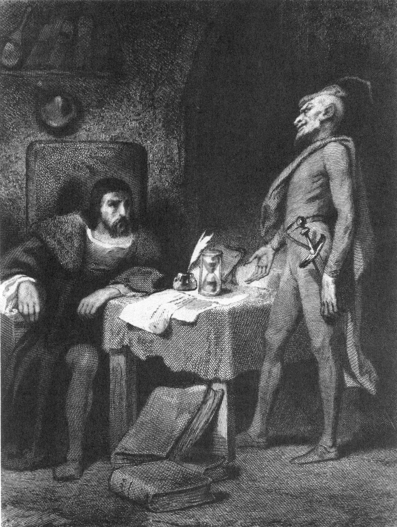 Faust and Mephisto in Fausts's study, engraving by Tony Johannot after “Faust” by Goethe